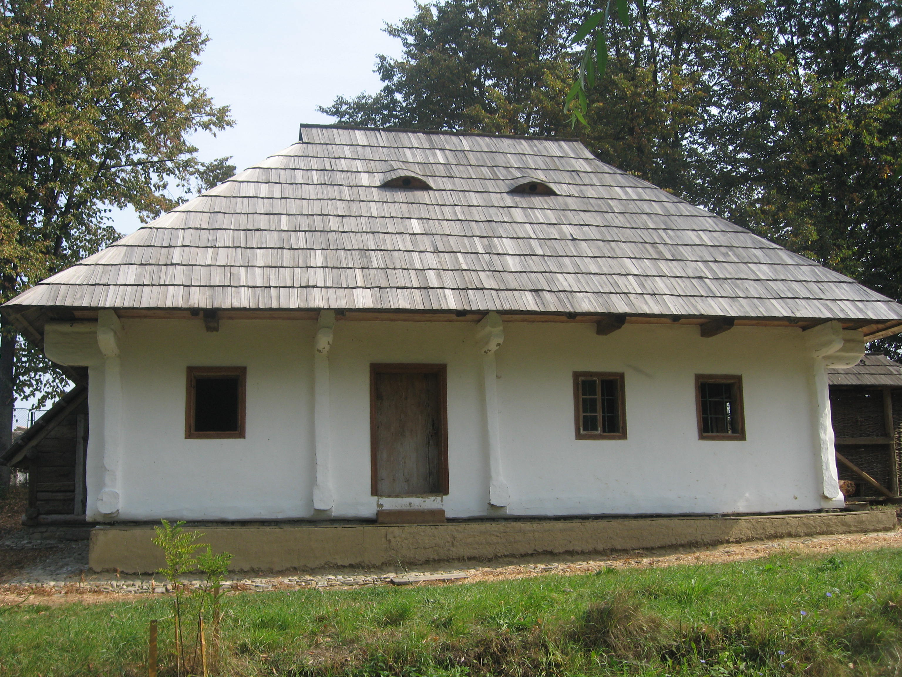 Bukovina Village Museum - The Volovăţ House, Rădăuţi ethnographic area.